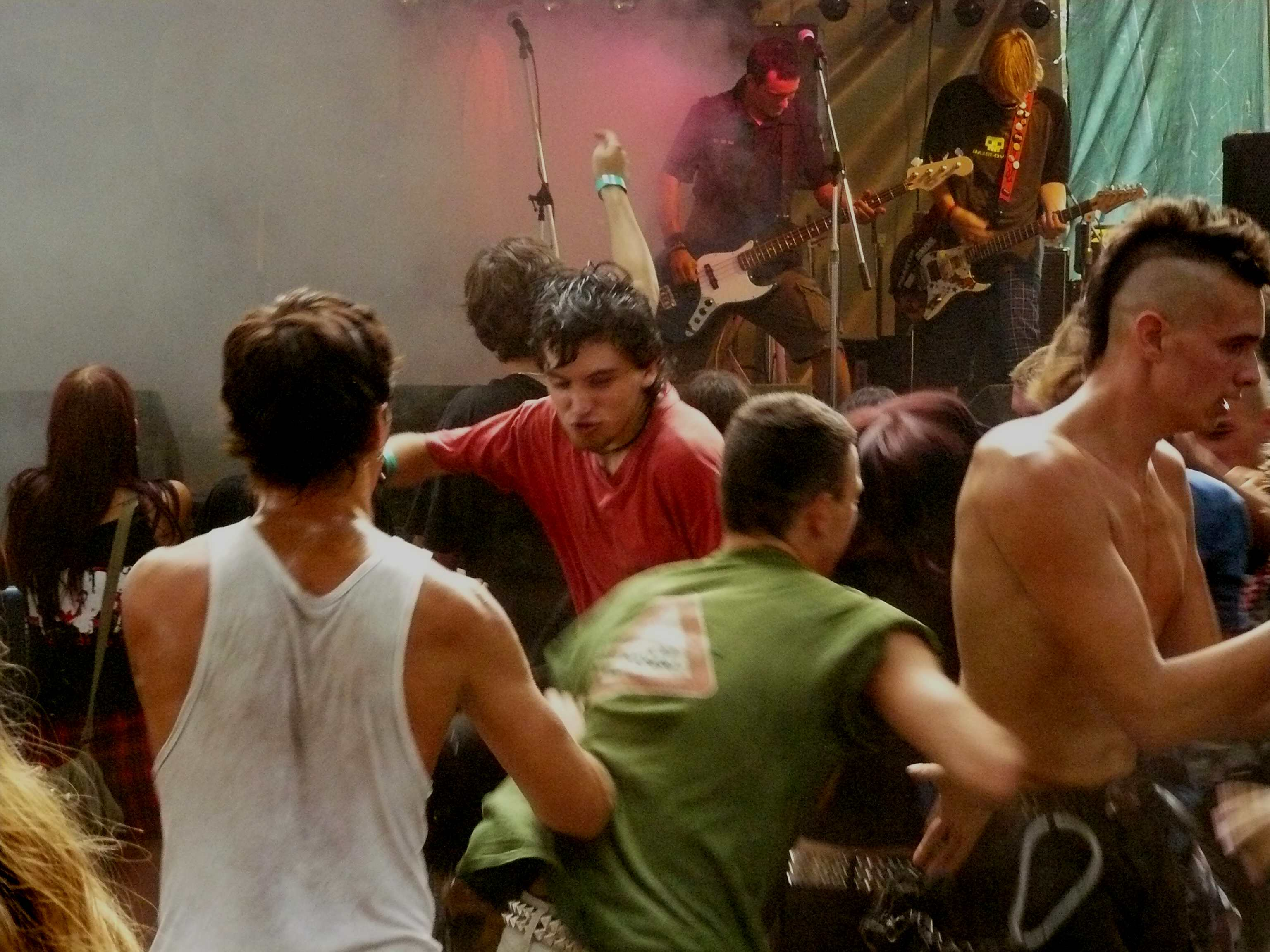 dance pogo.